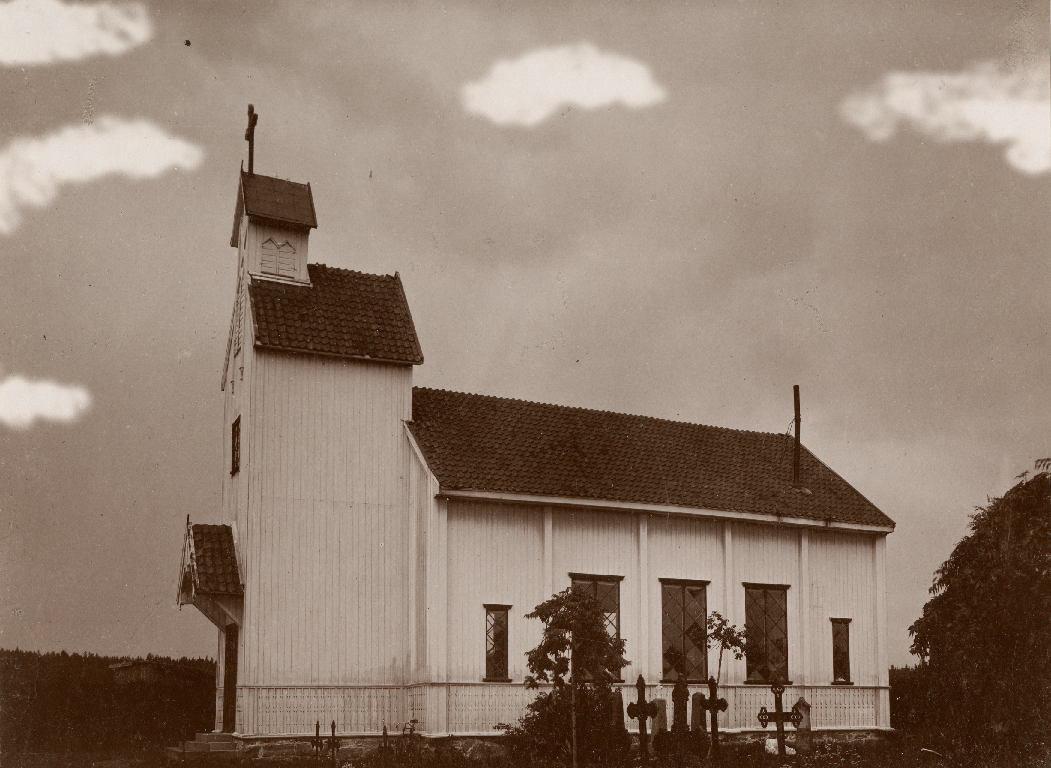 Kroer Church, Ås in Akershus, Norway from 1852, architect Johan Henrik Nebelong, source Burned down in 1923.